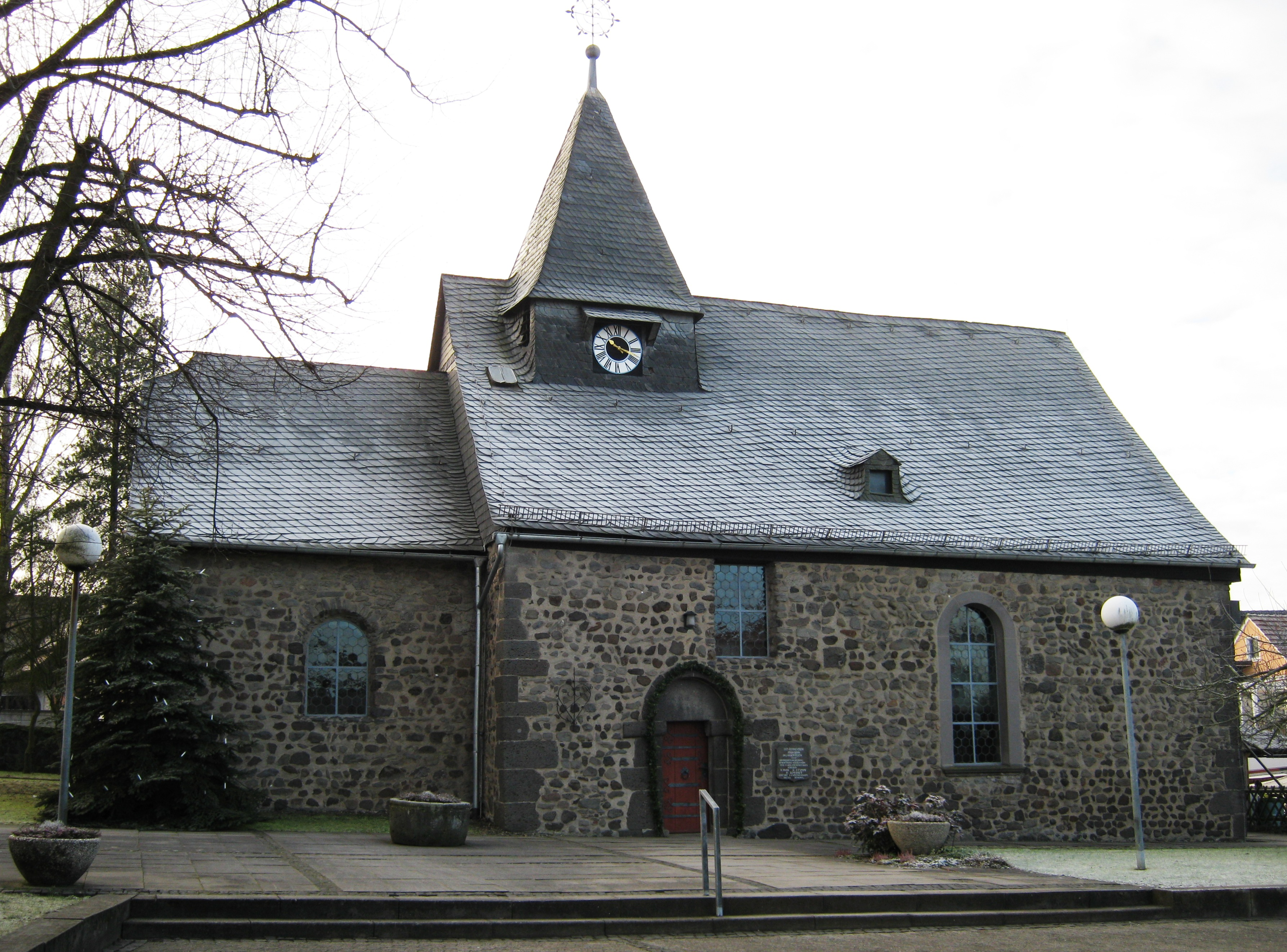 Church in Garbenteich, Germany.